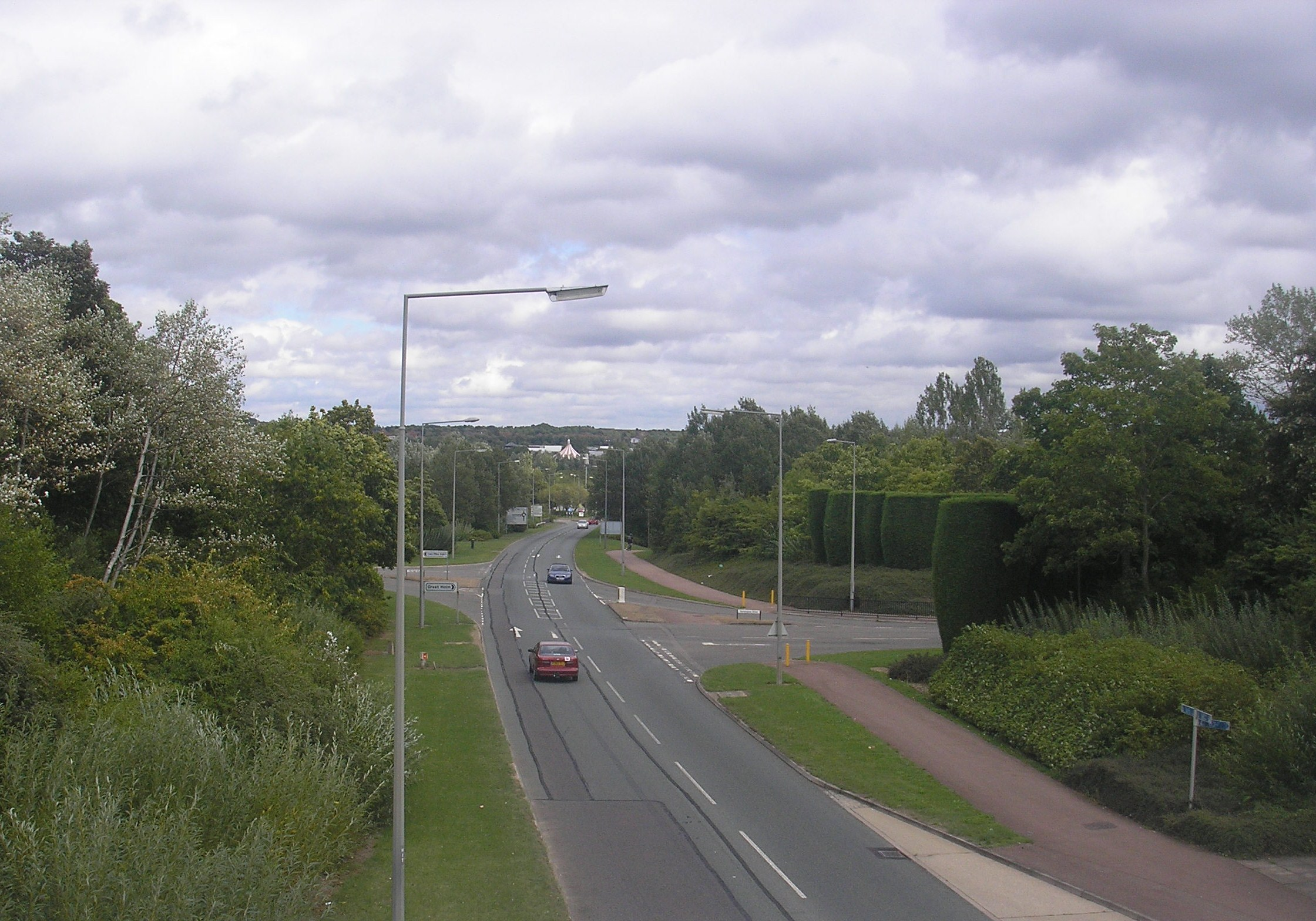 A view of the H4 Dansteed Way, a Milton Keynes grid road, looking east from Two Mile Ash.